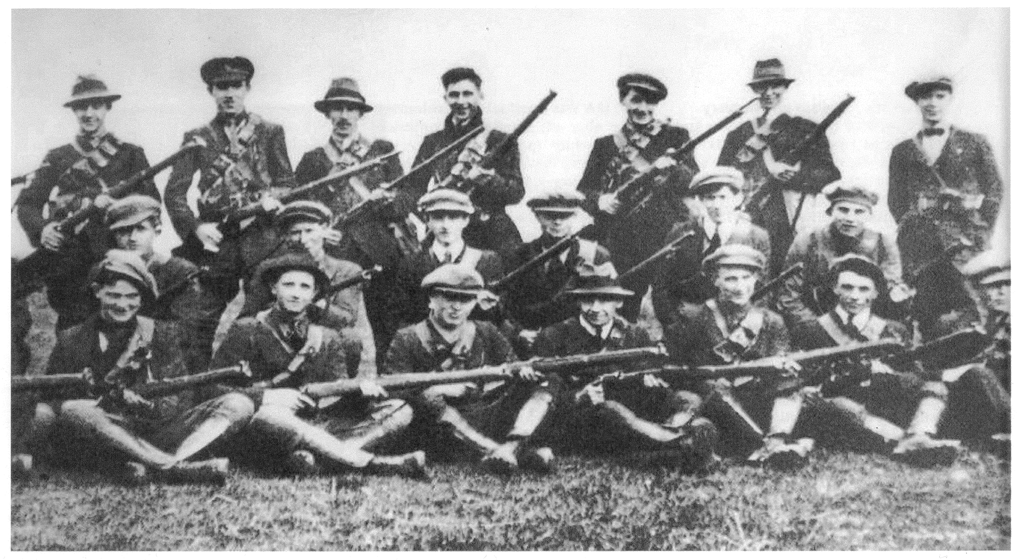 Photocopy of reproduced image taken during the Irish War of Independence. Seán Hogan's (NO. 2) Flying Column, 3rd Tipperary Brigade, IRA. T